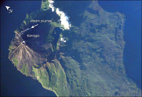 Kanaga Island with Mount Kanaga.